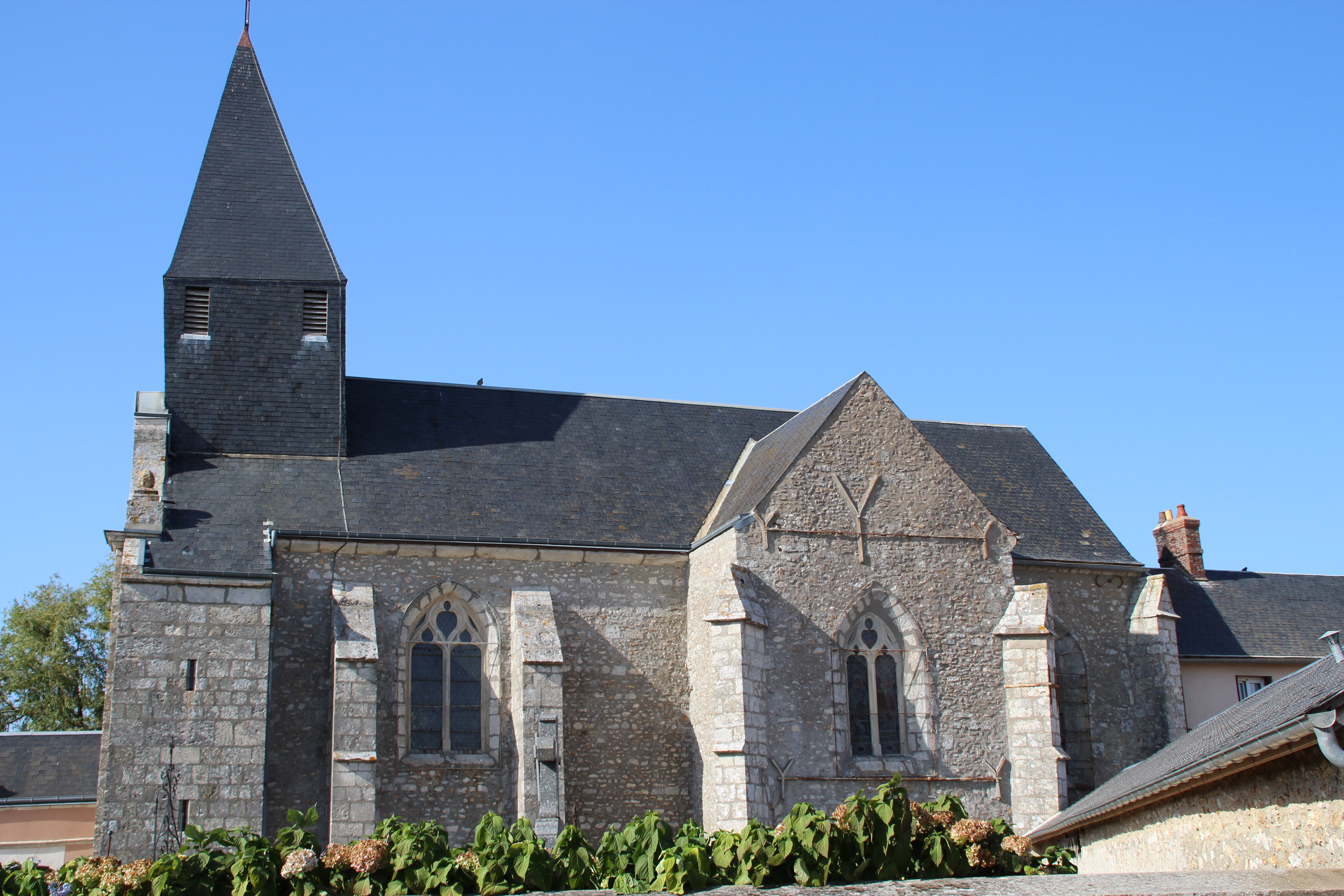 Saint Peter's church of Paray-Douaville in the Yvelines department in France.